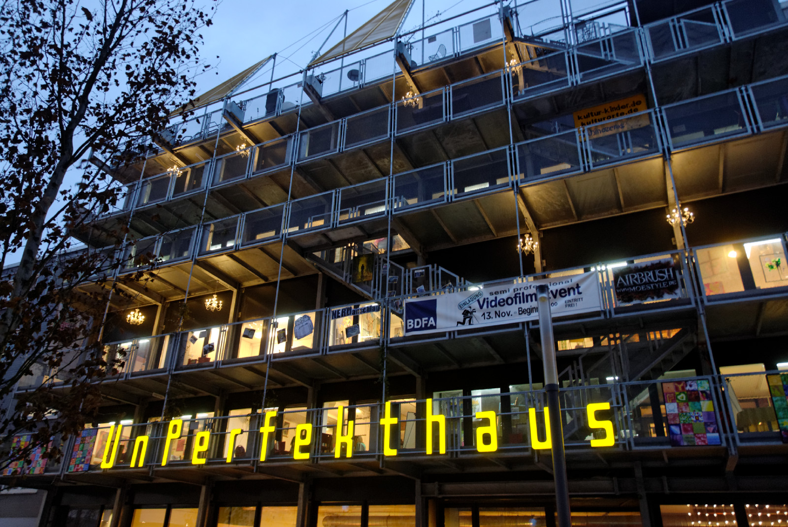 Unperfekthaus in Essen, Germany